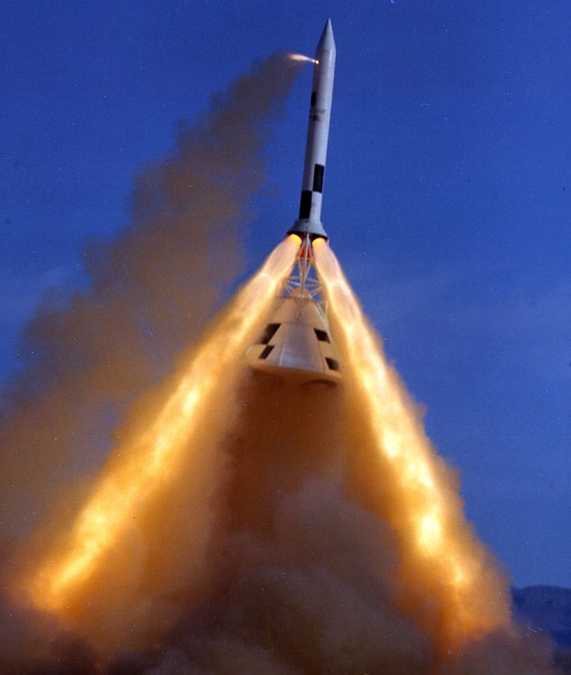 Apollo Pad Abort Test #2, pitch motor and launch escape motor firing